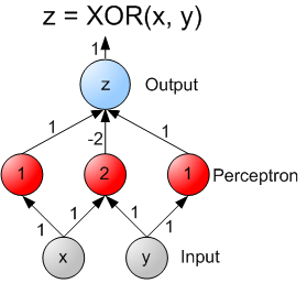 A three layer Perceptron net capable of calculating XOR. The numbers within the perceptrons represent each perceptrons' explicit threshold. The numbers that annotate arrows represent the weight of the inputs. This net assumes that if the threshold is not reached, zero (not -1) is output. Note that the bottom layer of inputs is not always considered a real perceptron layer.